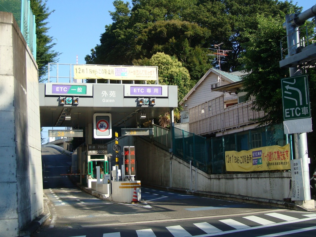 Shuto Kosoku expressway's Gaien entrance (Route 3), Shinjuku, Tokyo (on Gaien-Nishi Dori avenue)